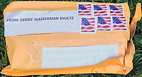 FBI’s Investigation of Suspicious Packages